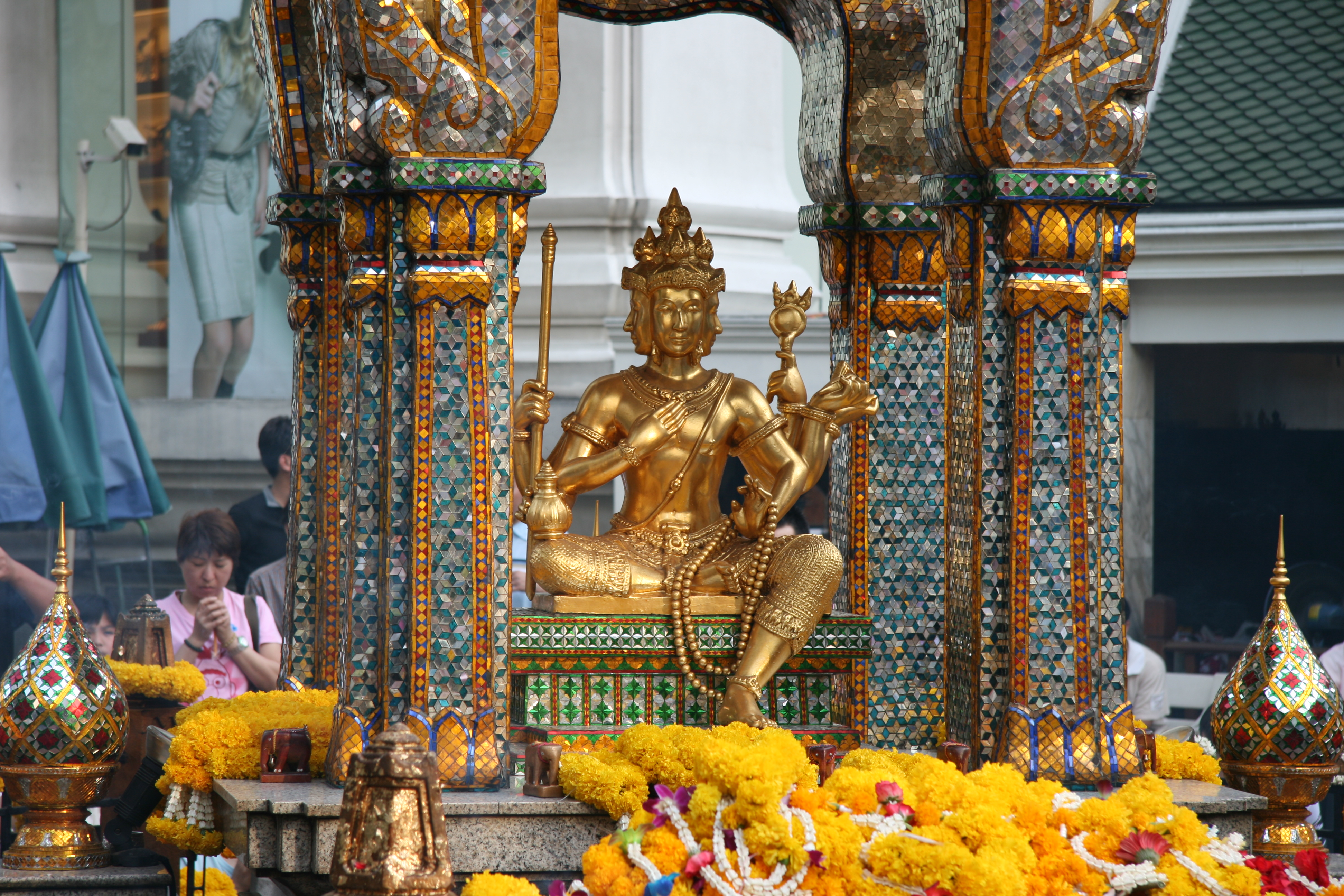 Erawan Shrine in Bangkok.